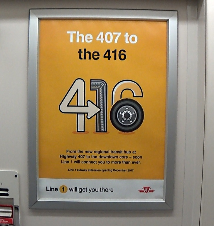 Advertisement for the TTC Line 1 extension